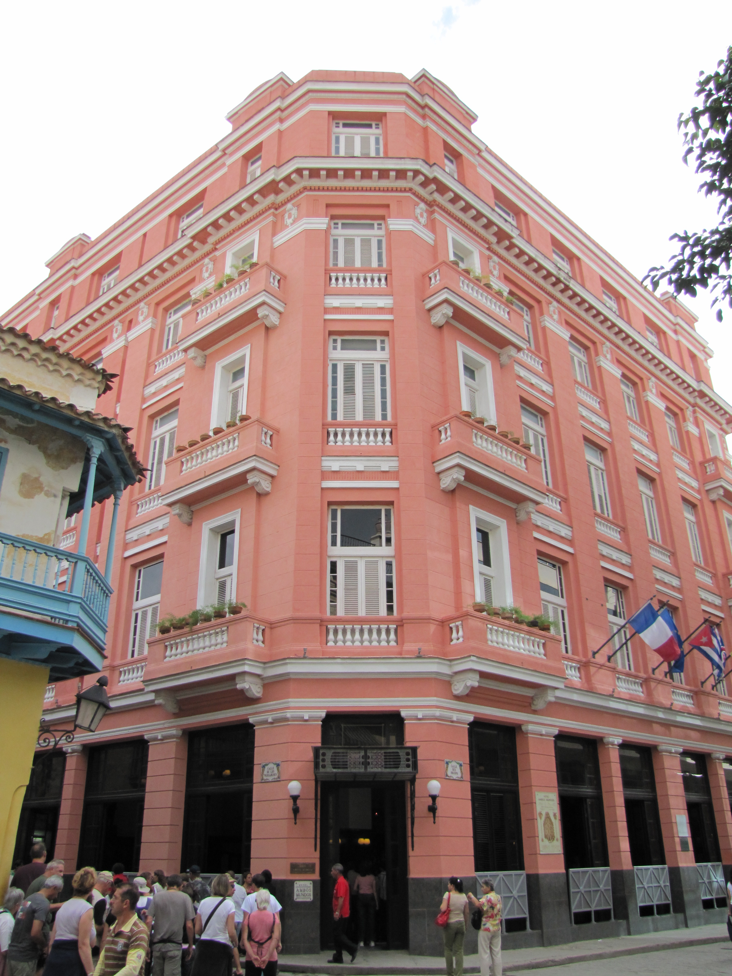 Hotel Ambos Mundos, Havana